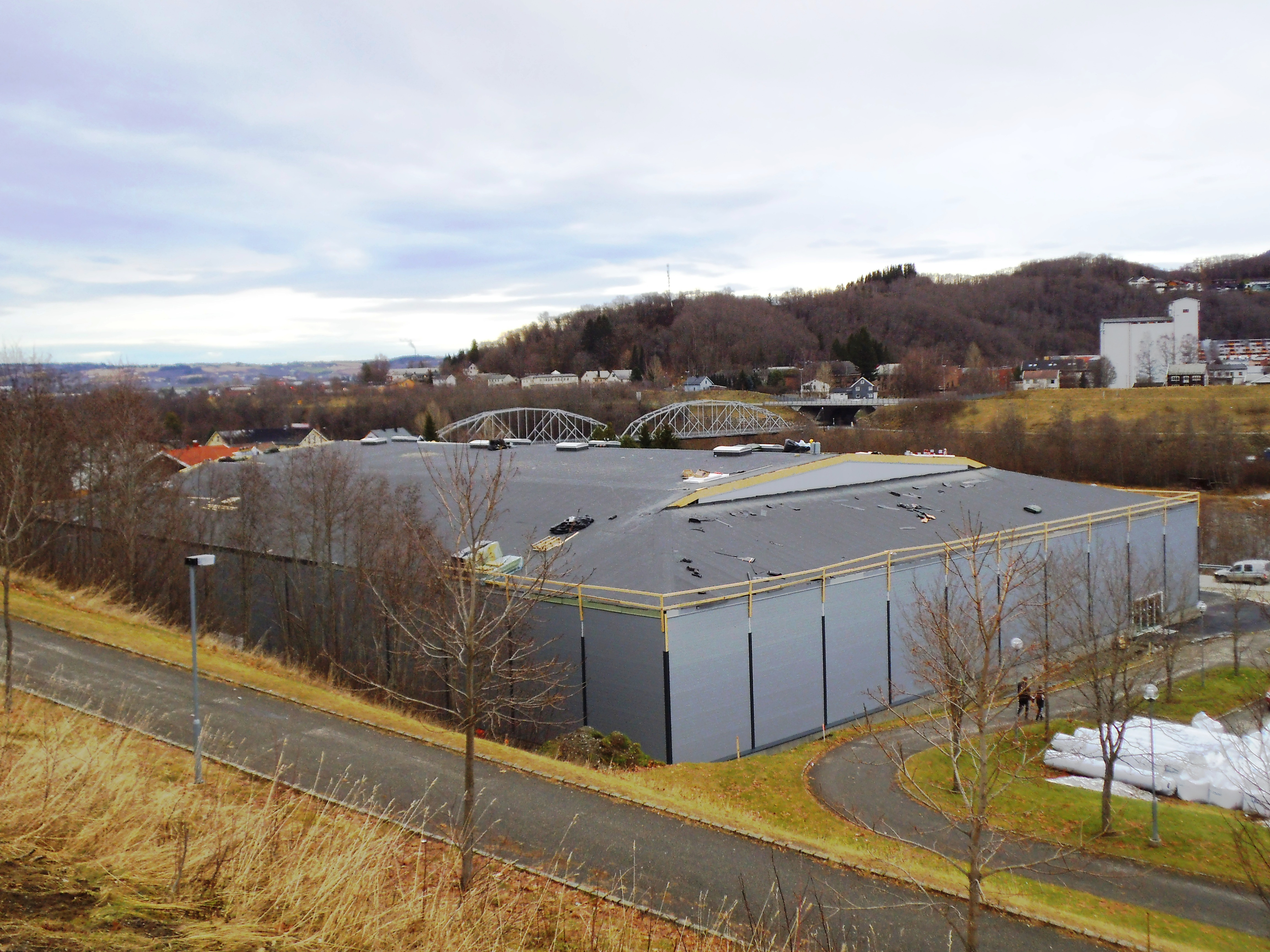 Bankhallen, an indoor sports arena in Melhus. Under construction. November 2012.